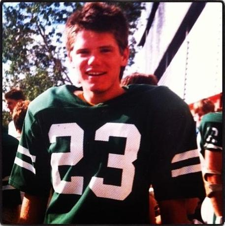 Picture of Michael Lazecki when he was playing with the Regina Rams of the Canadian Junior Football League (CJFL).